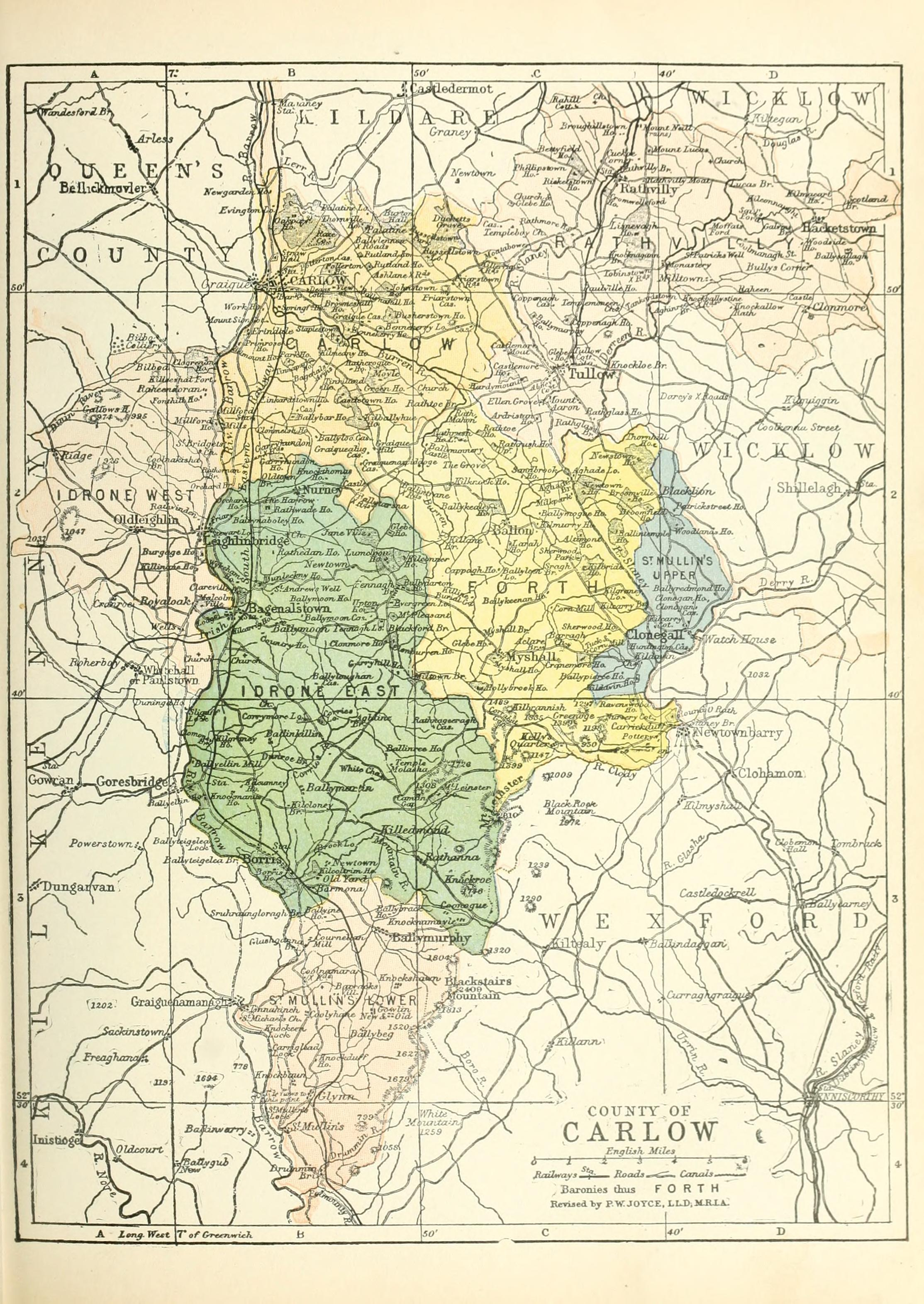 Map of the baronies of County Carlow in Ireland; taken from Atlas and cyclopedia of Ireland, p.44